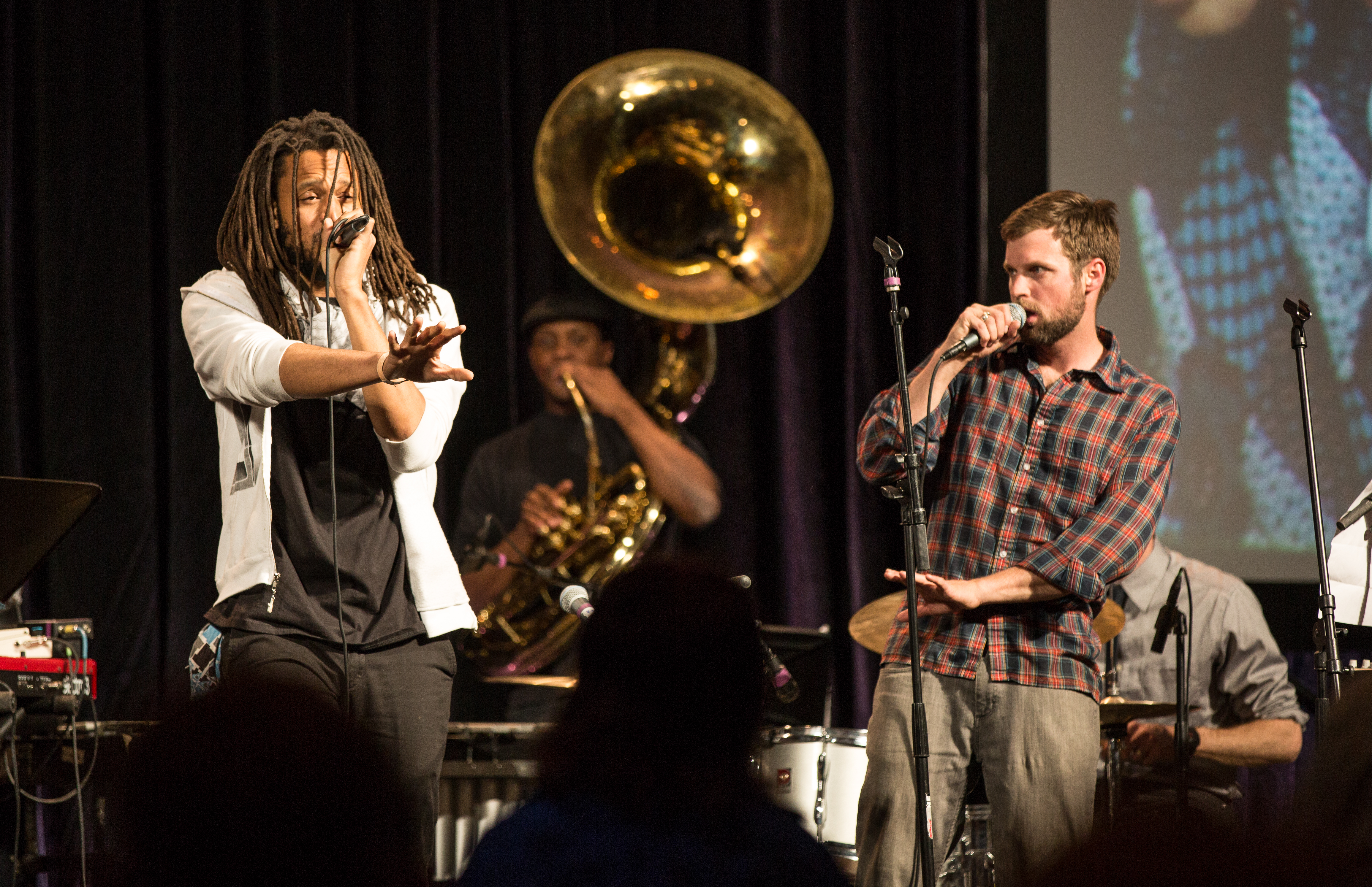 National Conference for Media Reform, Denver, Colorado